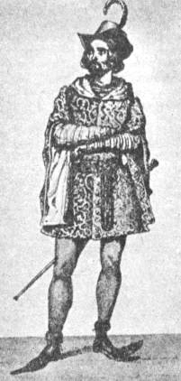 Bocage, in the role of Buridan, the hero of the drama La Tour de Nesle by Alexandre Dumas, 1831.